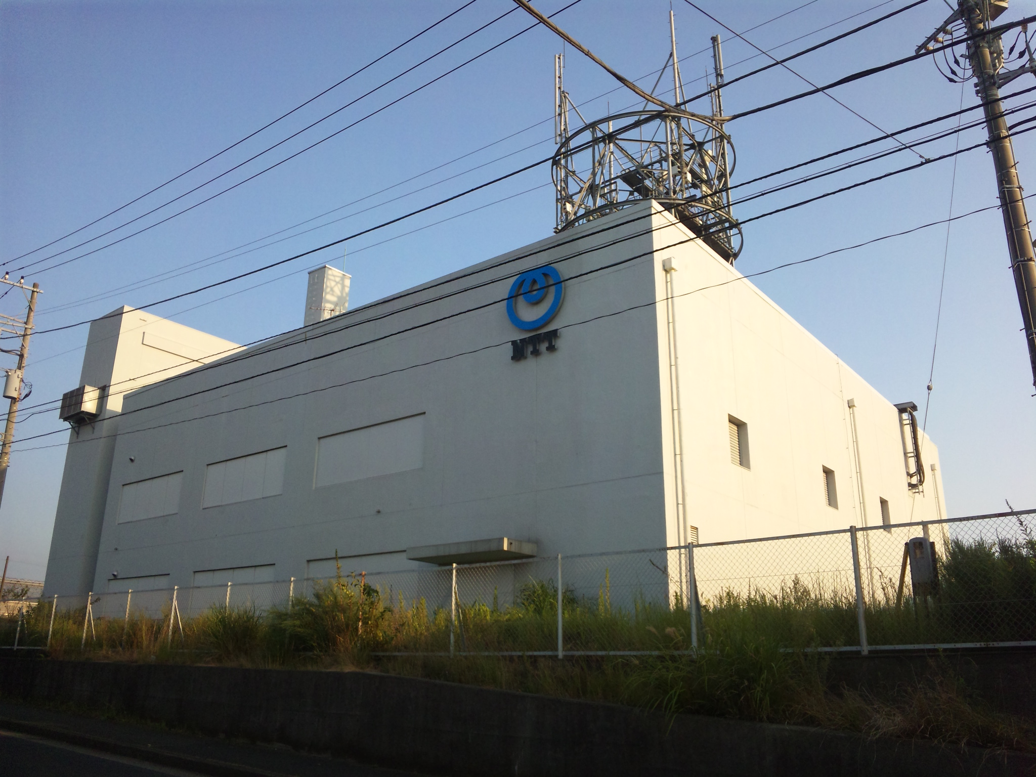 NTT EAST kosuzume